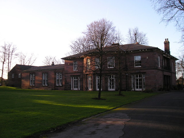 Eccleston Hall The third Hall to be built on this site,(17th c.) seat of the Eccleston Family before handing over to Taylors in the 18th.century. Lord Eccleston raised an army of Lancashire Archers who routed the French at the Battle of Agincourt in 1415, and at Crecy. Now converted to residential apartments.